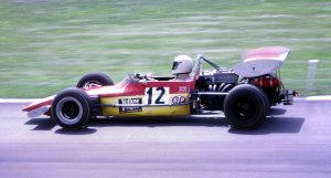 Stephen Choularton Lotus 69